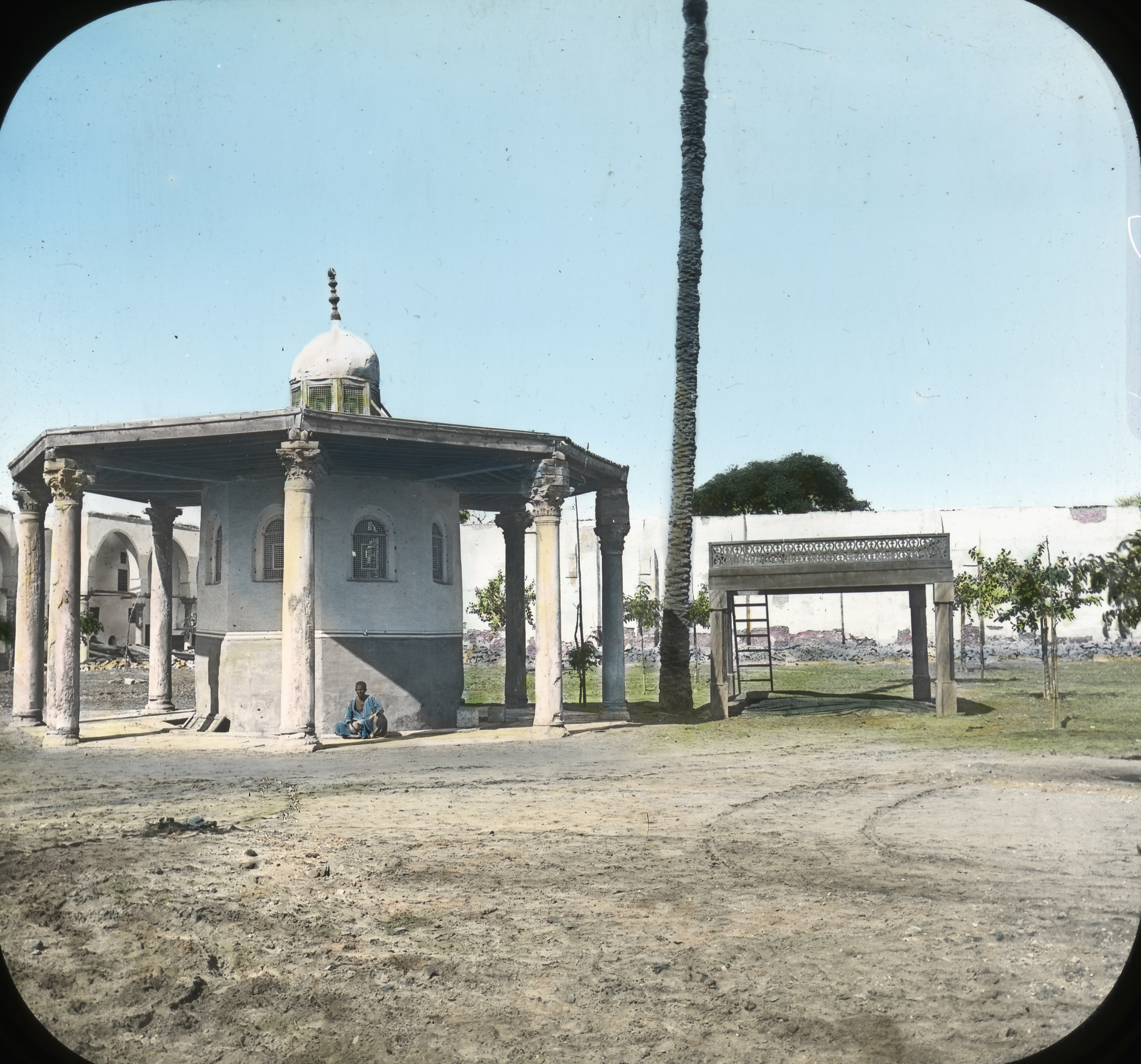 Lantern Slide Collection: Views, Objects: Egypt. General Views\People [selected images]. View 064: Egypt - Mosque of Amr, Ablution Fountain, Old Cairo., n.d., T. H. McAllister, Manufacturing Optician. 49 Nassau Street, New York. Brooklyn Museum Archives (S10|08 General Views_People, image 9807). Help us map this image by using Suggestify to suggest a location for it.